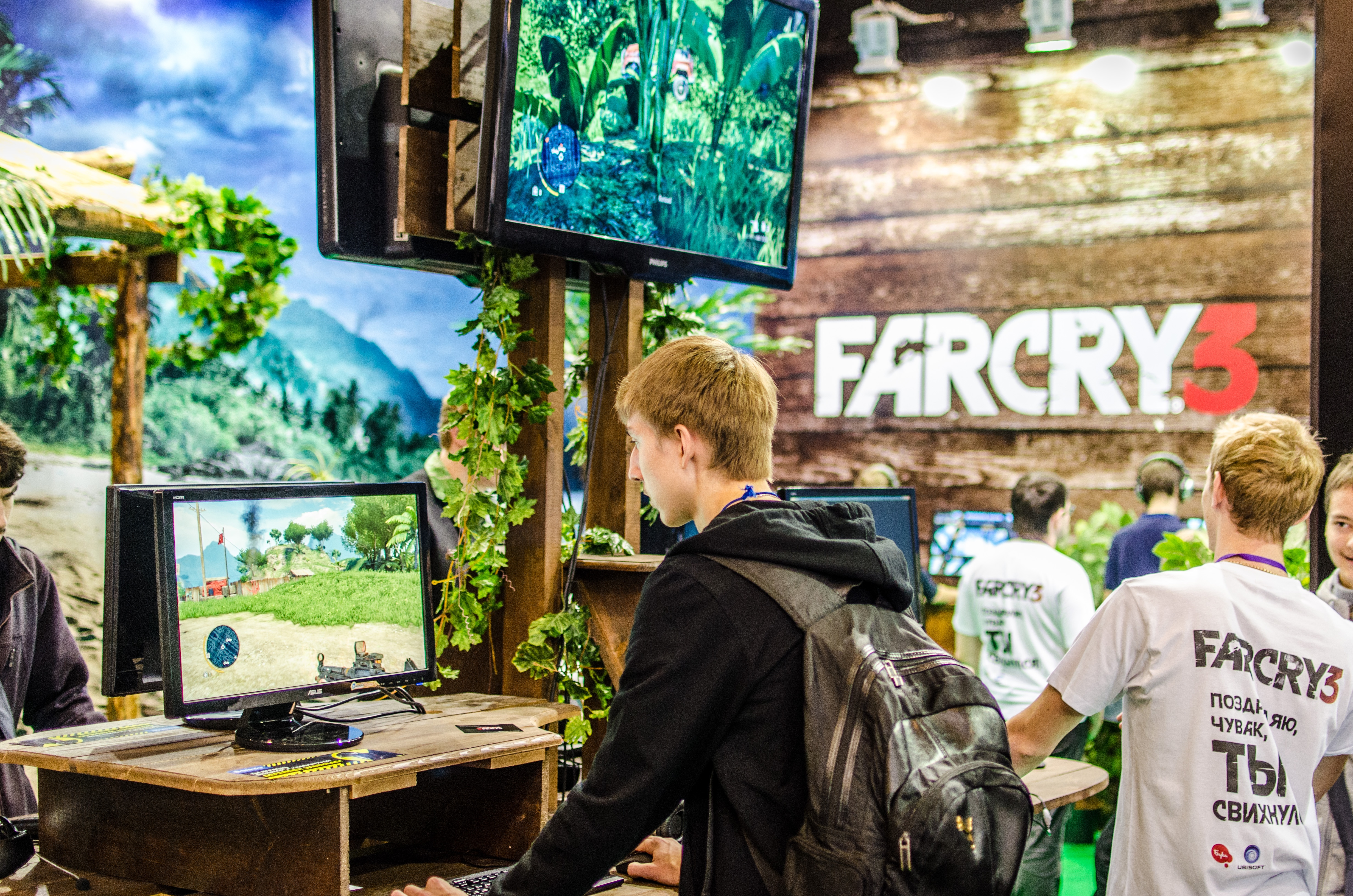 Far Cry 3 at Igromir 2012